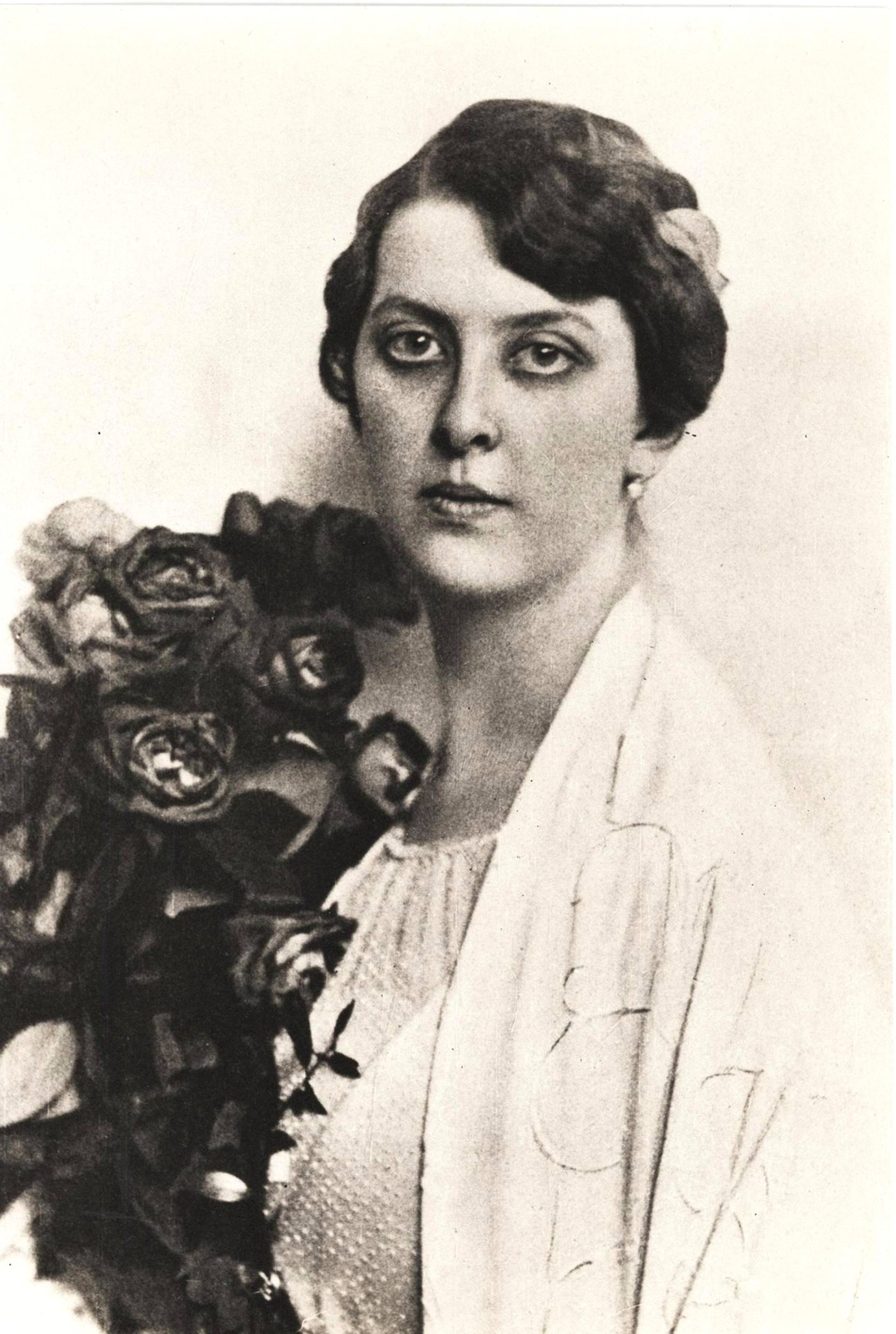 Photograph of Sophy (Sofia) Mannerheim (1895–1963), daughter of C. G. E. Mannerheim, as a garland-weaver for a Helsinki University promotion.